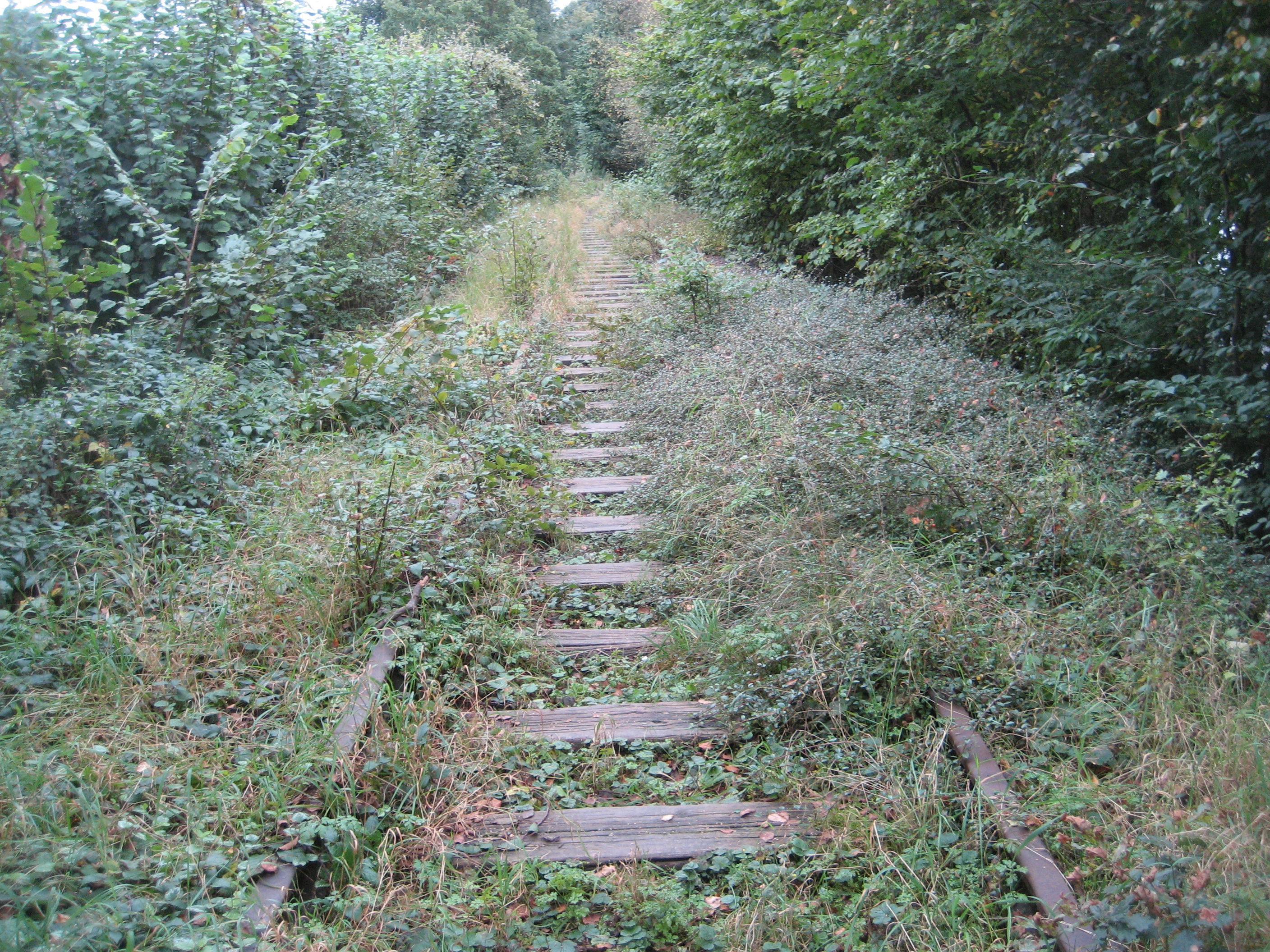 former railway track along the river Wipper south-east of Wuppertal, Germany